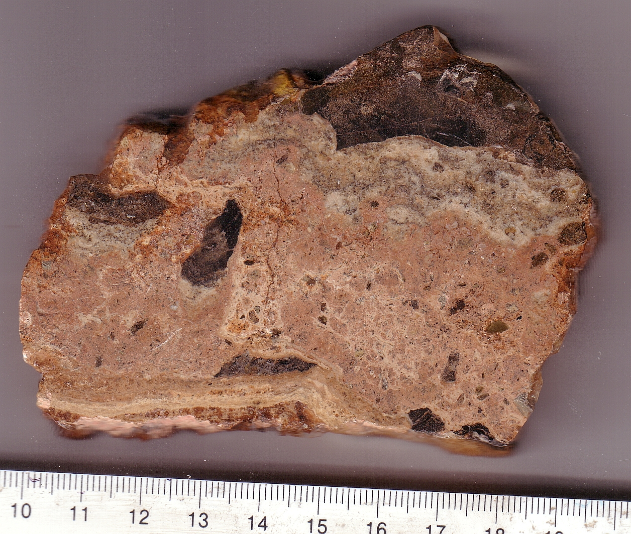 Highly shocked polymictic breccia from the Azuara impact structure.